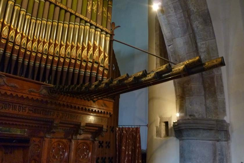 Dating from 1861, the organ at St Mary's Church, Usk, Monmouthshire, was originally located in Llandaff Cathedral, Cardiff. Highly decorated, it has distinctive horizontal sets of trumpets. It was moved to Usk in 1900.